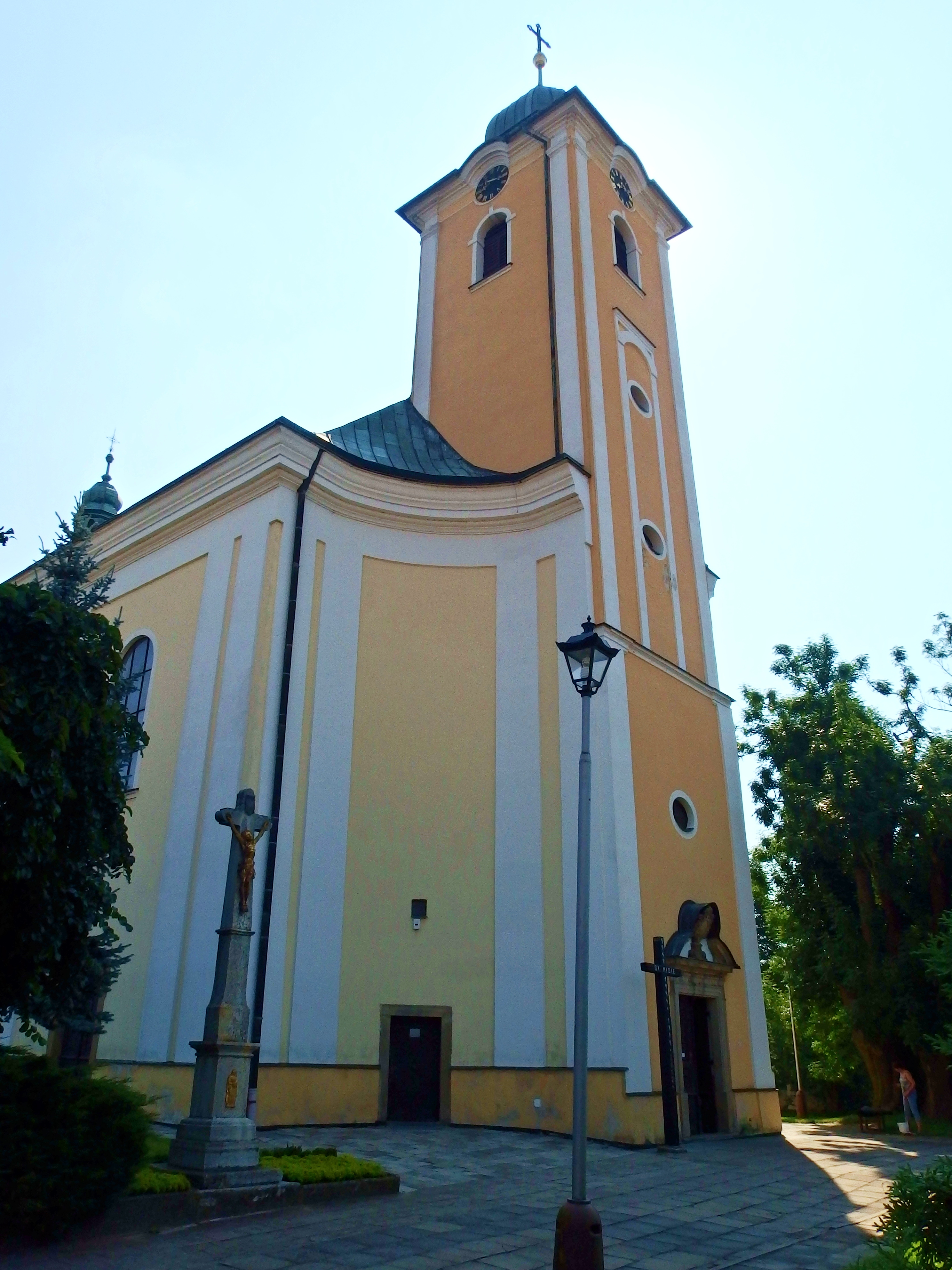 Kelč, Vsetín District, Czech Republic.